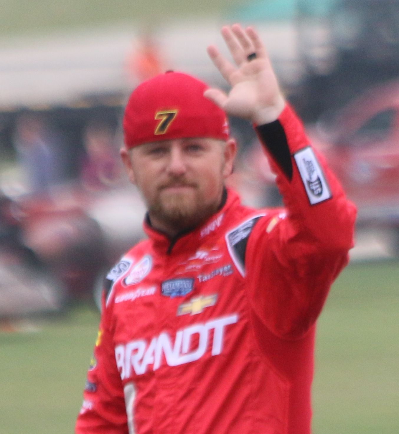 NASCAR driver Justin Allgaier at the Road America 180.